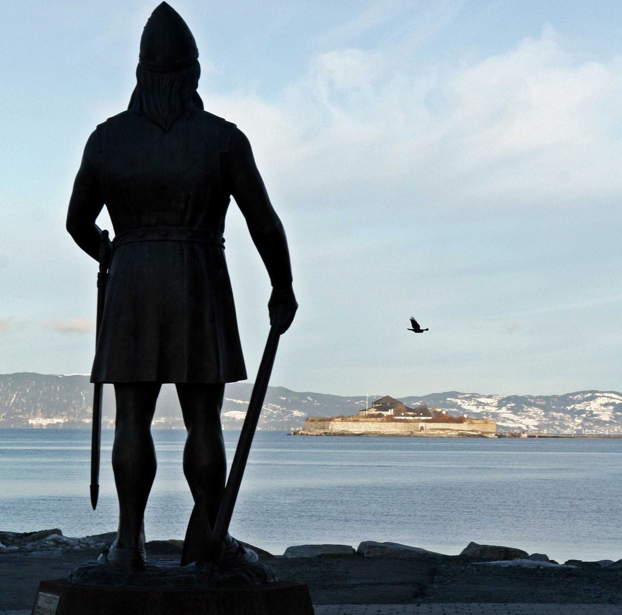 In the harbour: Viking overlooking the Strindfjord and Munkholmen.